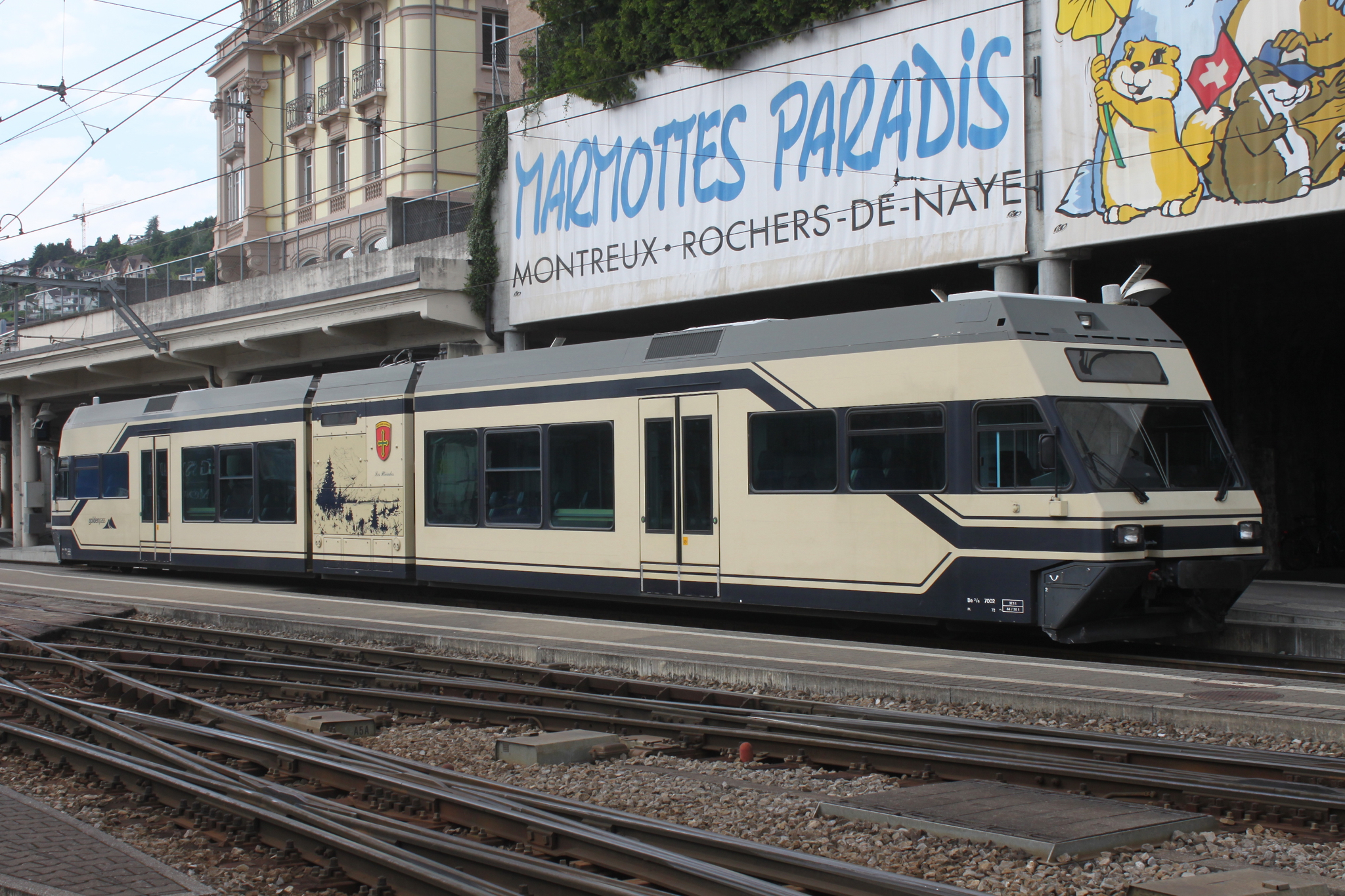 MVR Be 2/6 7002 at Montreux train station.